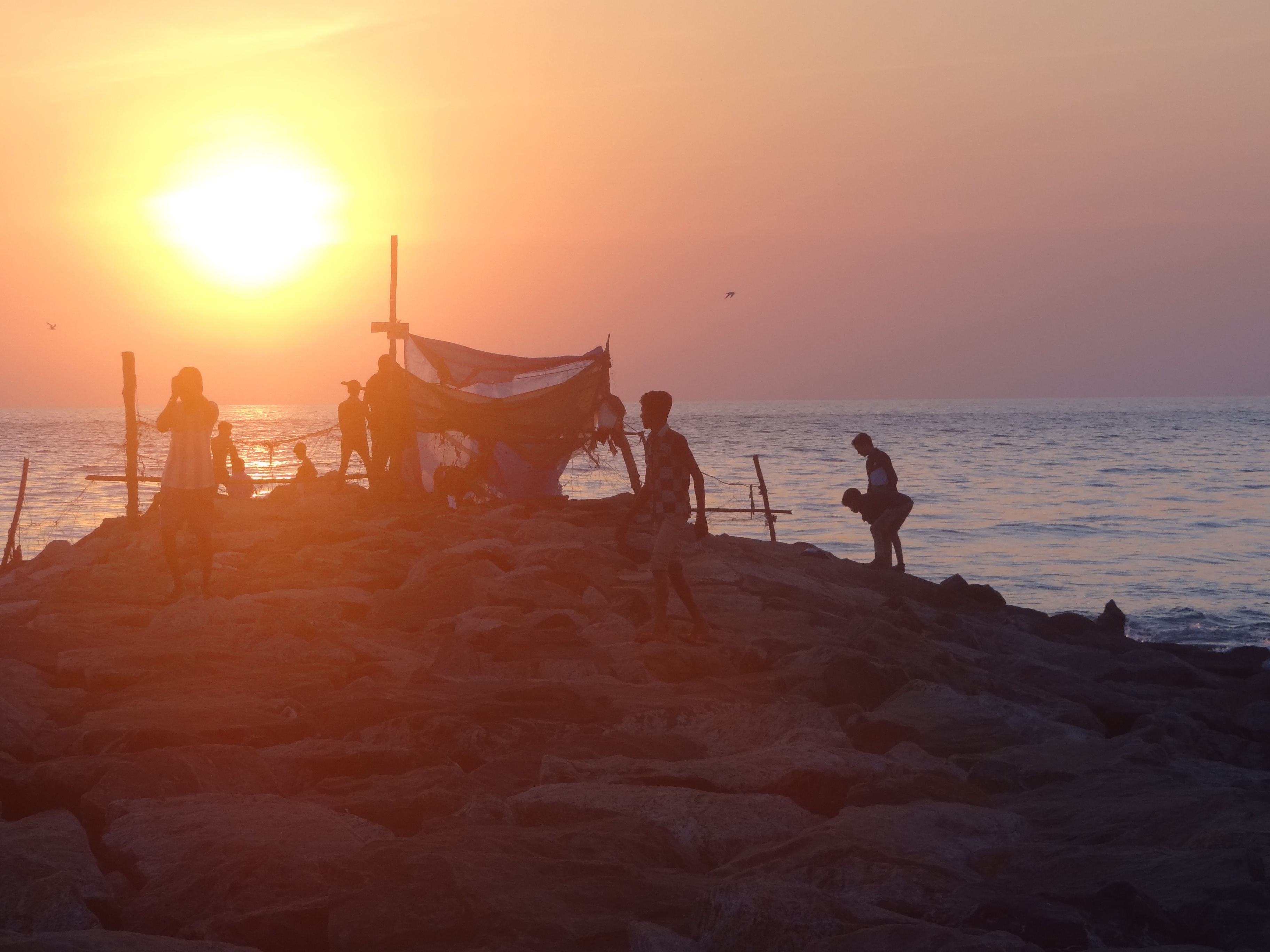 The image is taken from Sand banks , Vadakara